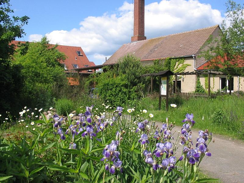 Bird observatory in Baitz, garden. The village Baitz is situated at the south border of the nature reserve Belziger Landschaftswiesen. It is an incorporated part of the town Brück in Brandenburg, Germany.